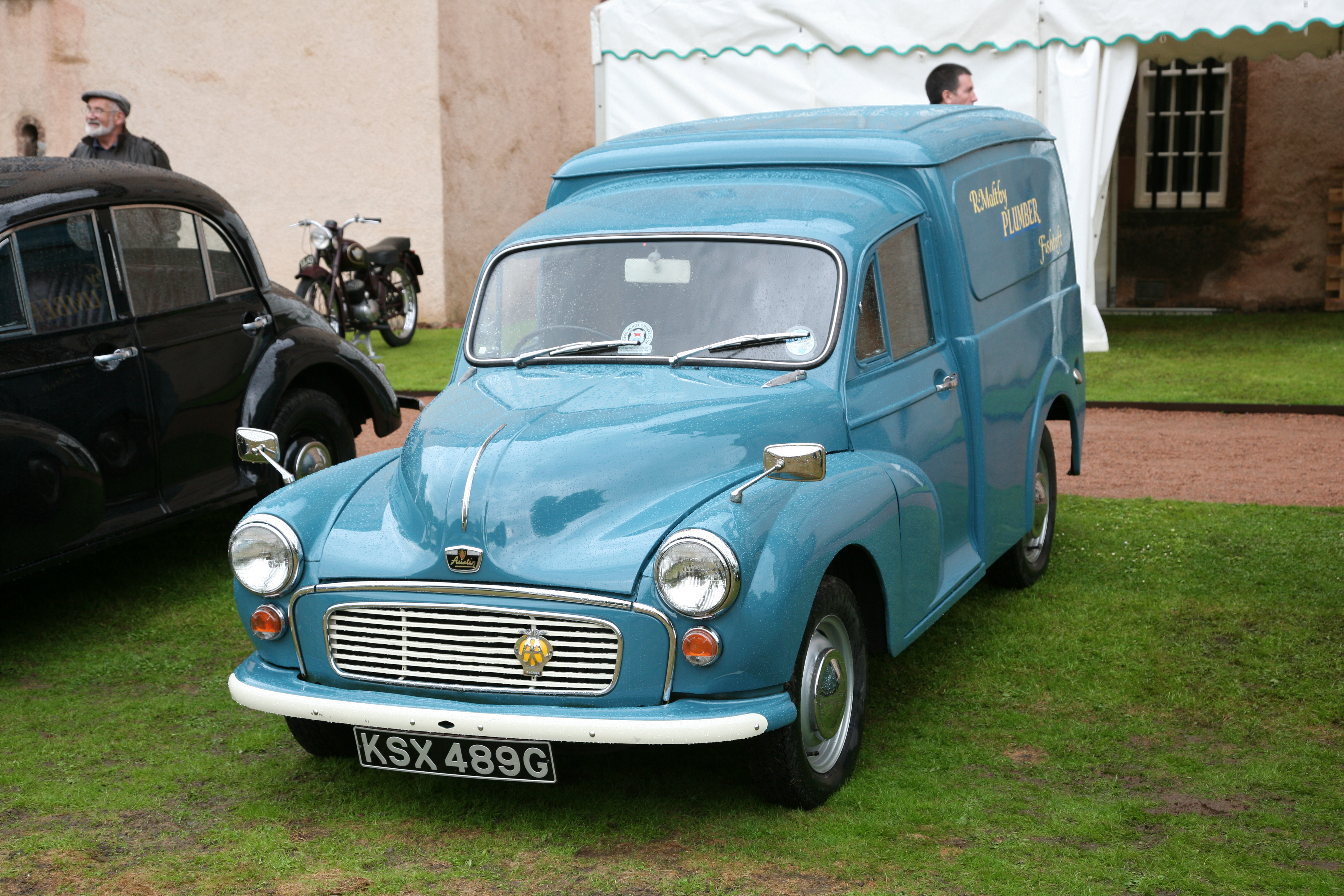 1969 Austin 6cwt or 8cwt van